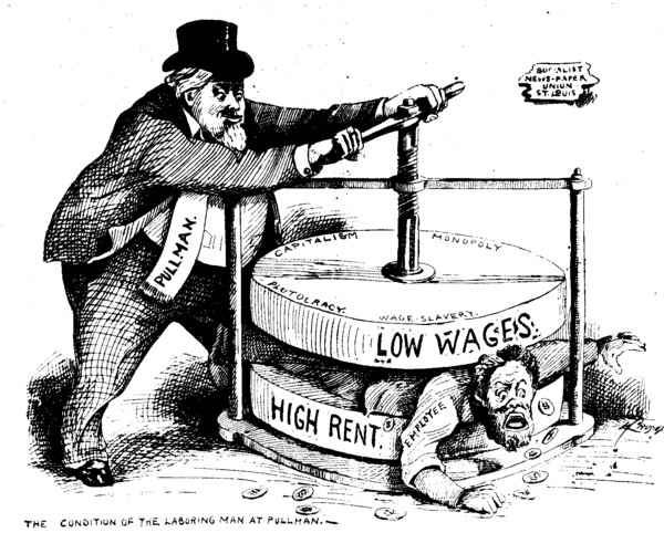 Political cartoon from the Chicago Labor newspaper from July 7, 1894 which shows the condition of the laboring man at the Pullman Company. The employee is being squeezed by Pullman between low wage and high rent.